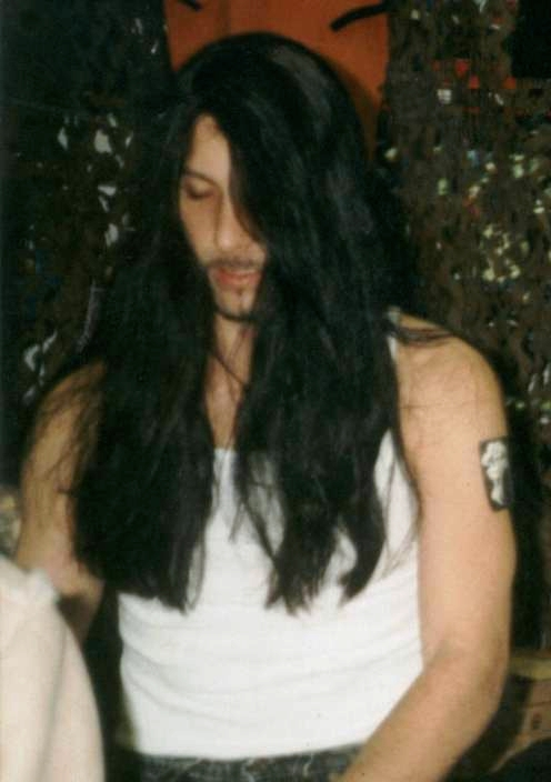 Johnny Kelly of Type O Negative, photographed at an in-store signing in London, England, circa 1997. Photo taken by my wife, who gives permission for it to be released under the GFDL